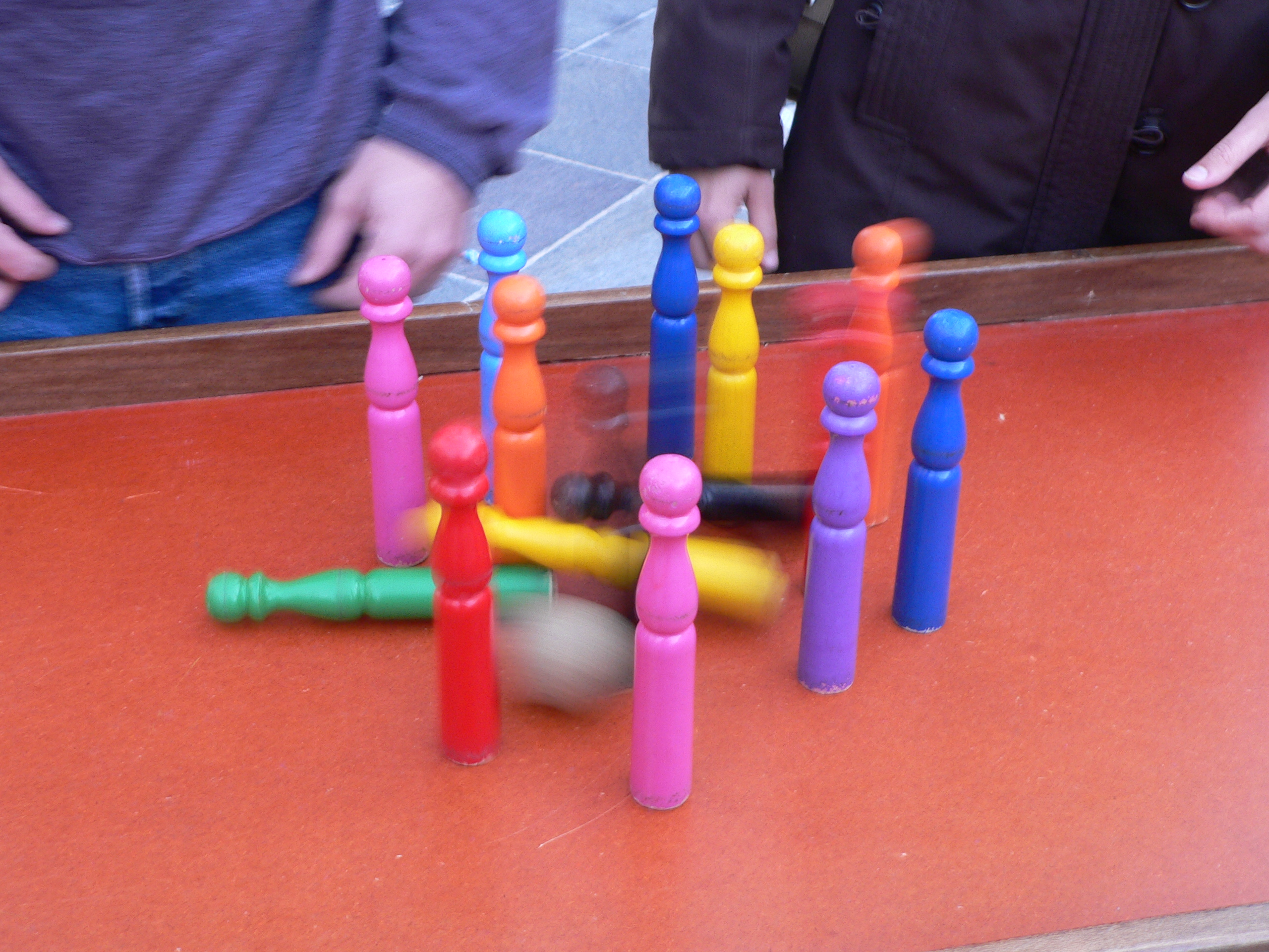 Table skittles being played in Hyères, France